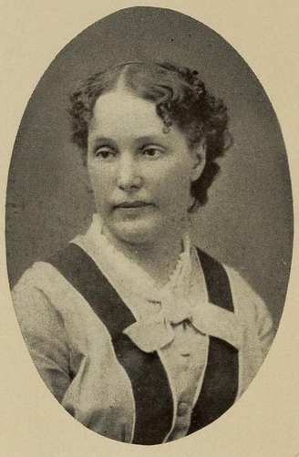 Caroline Nichols Churchill, at forty years, from a 1909 publication.